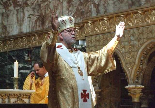 Bishop Paul Patrick Chomnycky speaking in the Ukrainian Cathedral of the Holy Family in Exile, London. He is wearing an Orthodox style mitre and a white omophorion with red crosses.